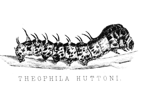 Bombyx huttoni Westwood 1847 from: Cotes, E.G. (1889). The Wild Silk Insects Of India. Indian Museum Notes. II. Calcutta. pp. 84–85. Retrieved 1 May 2020.